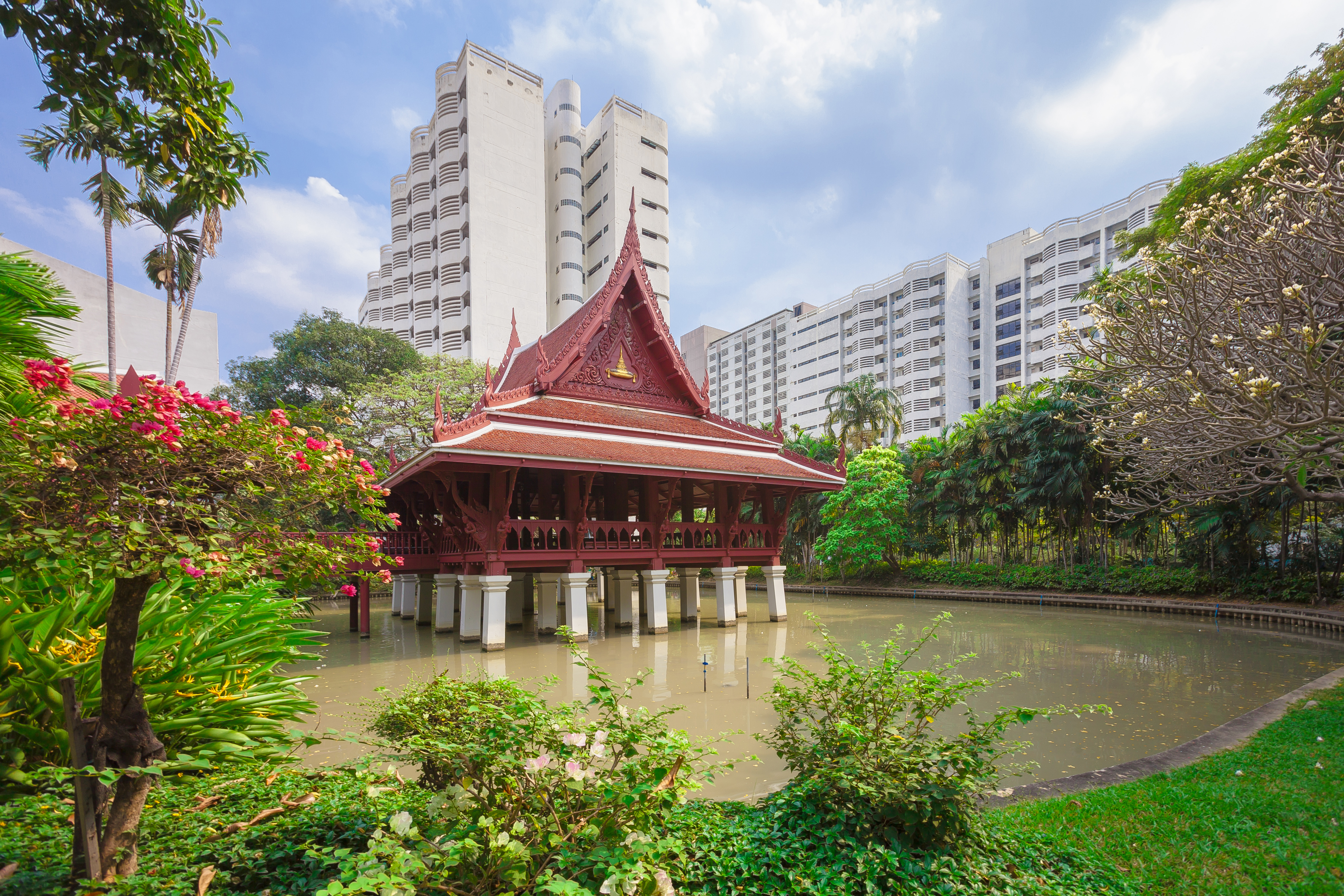 Ruen Thai Chulalongkorn University.